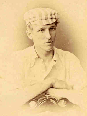 Photo of Percy Crutchley